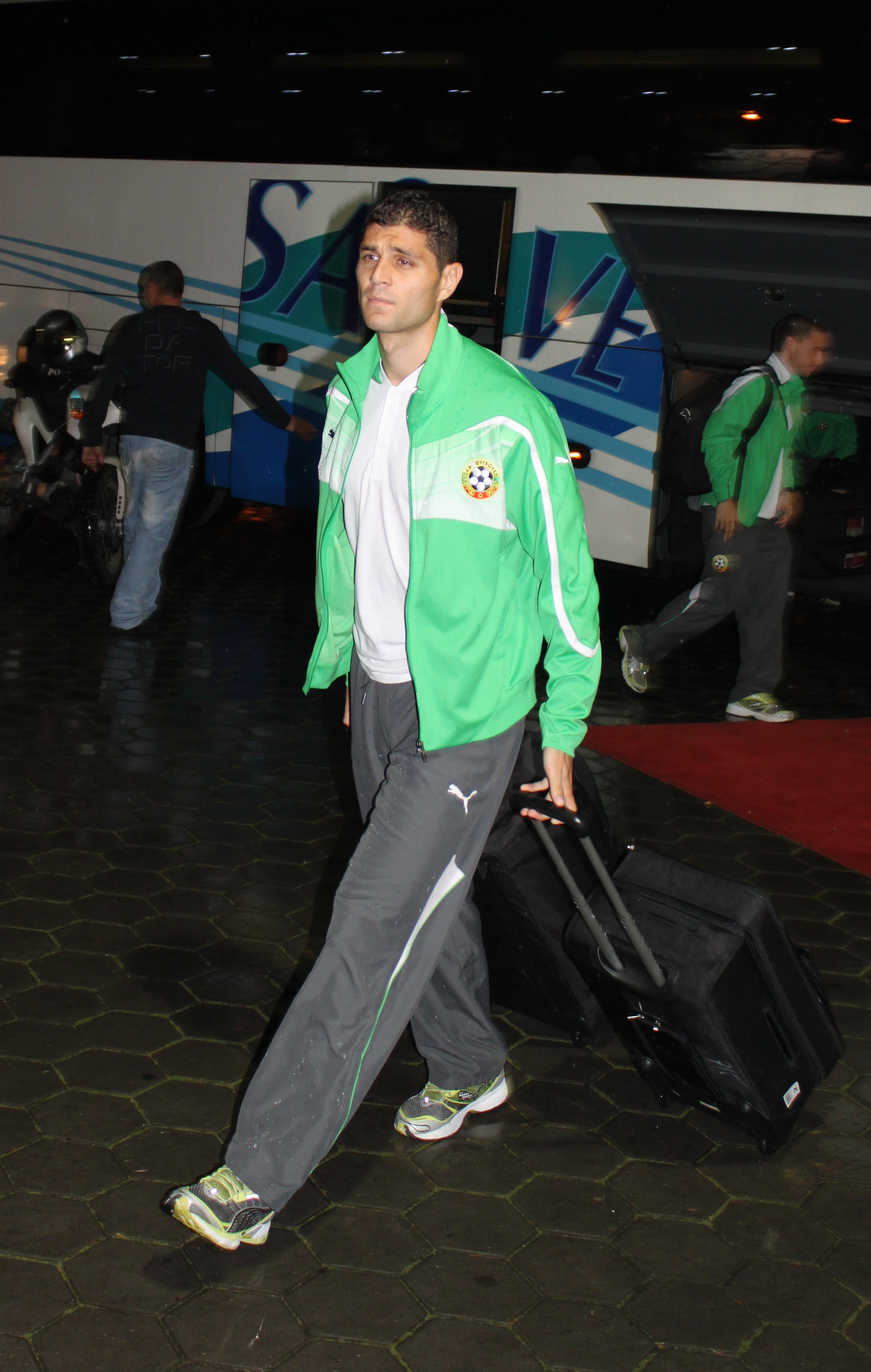 Dimitar Ivanov Makriev (Bulgarian: Димитър Макриев) (born January 7, 1984) is a Bulgarian footballer who plays for F.C. Ashdod as a striker.